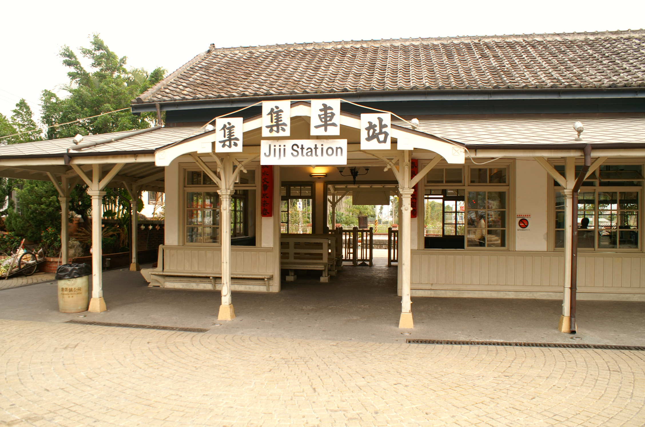 Jiji train station in Nantou County, Taiwan.